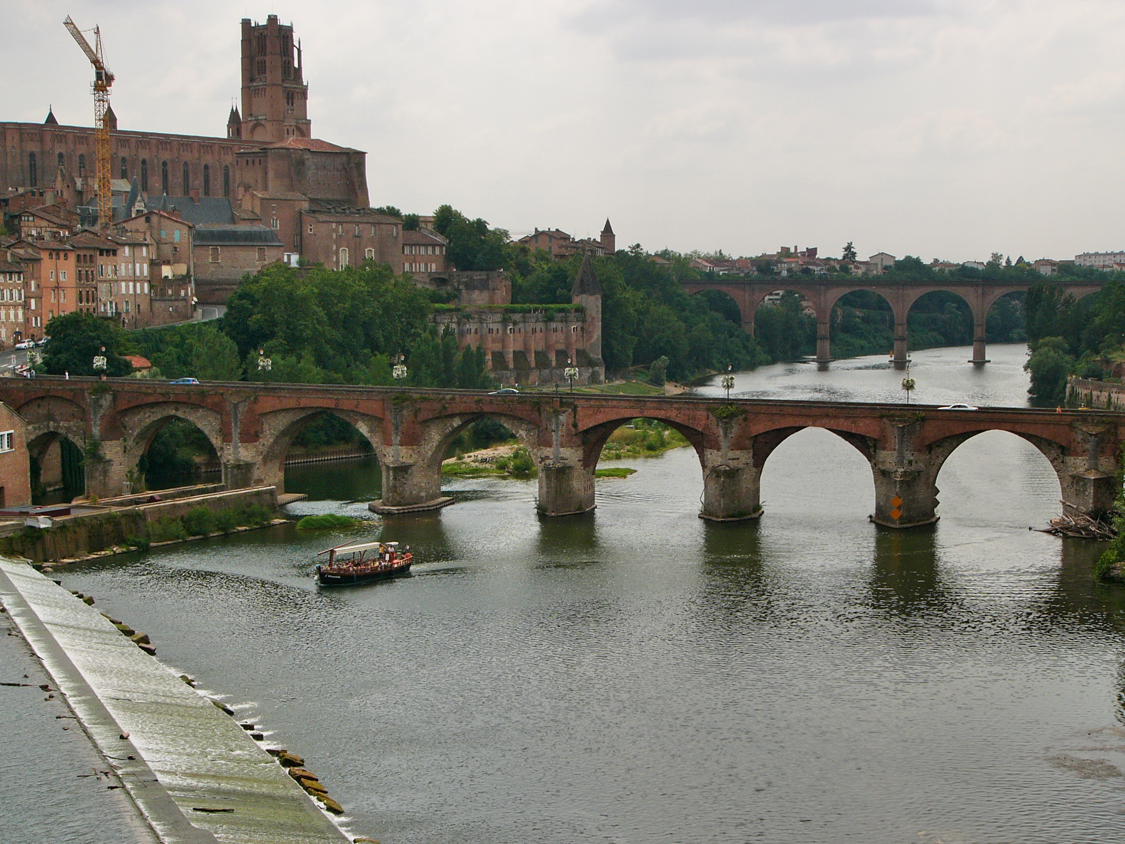 Pont Vieux